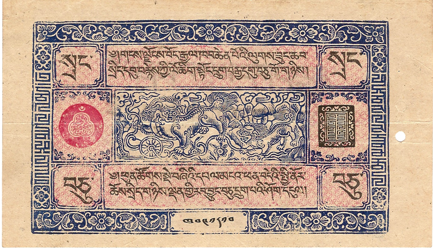 Tibetan banknotes of 10 srang, dated T.E. 1692 (1946), Avers